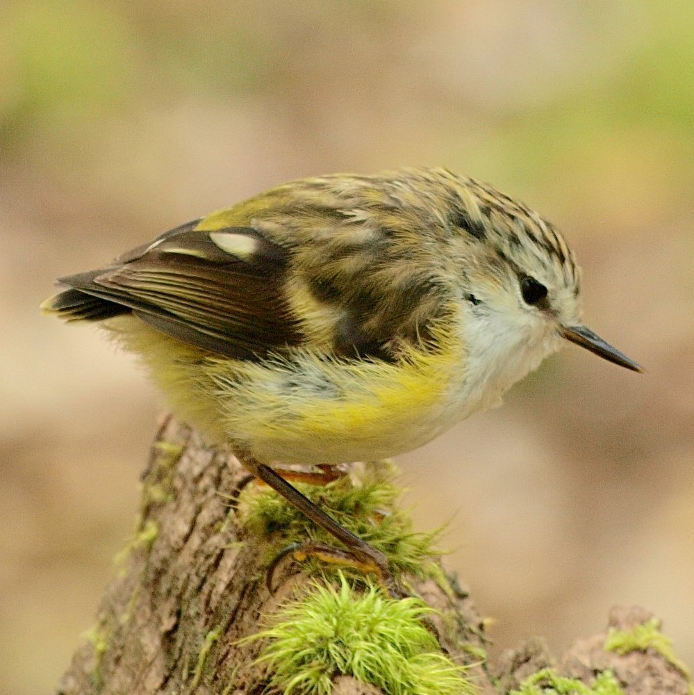 Female South Island Rifleman. We encountered this one on the Lake Sylvan circuit and I was able to get quite close. p3102013t-1600-usm3